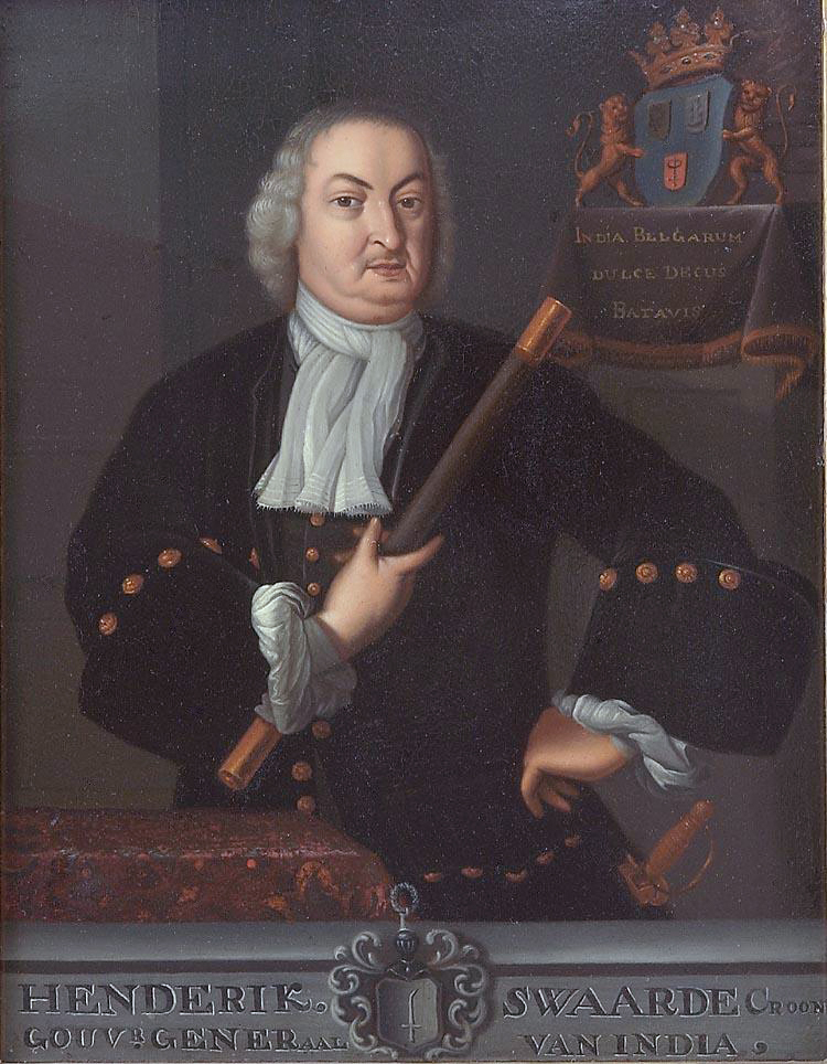 Gouverneur-Generaal Hendrik Swaardecroon oilpainting 31.5x24 cm.